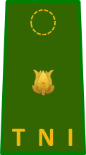 Major rank insignia that used on daily uniforms of Indonesian Army